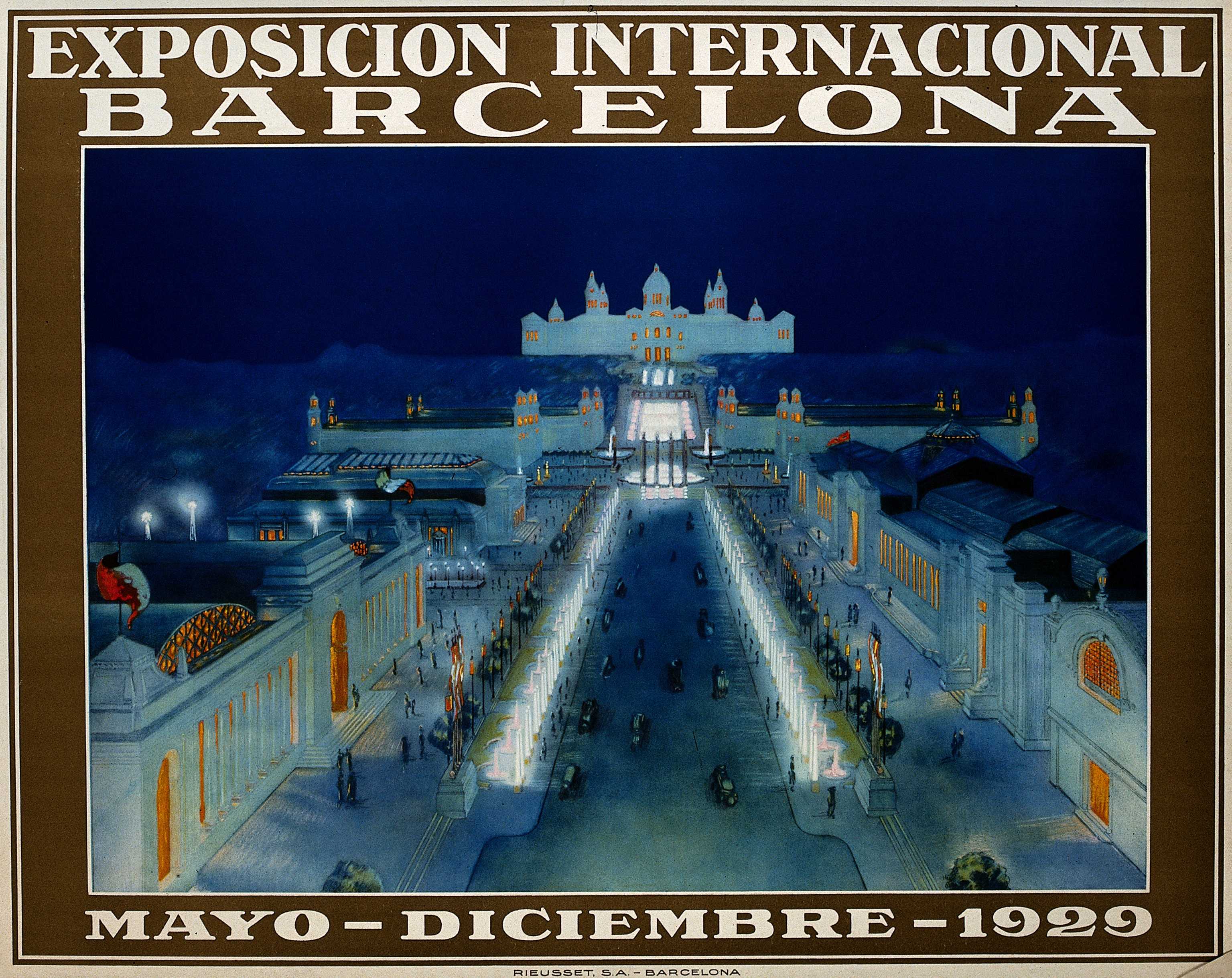 A poster advertising the International Exhibition, Barcelona, 1929 featuring a night view of a building in the exhibition "Exposicion internacional Barcelona ; Mayo Diciembre 1929" Iconographic Collections Keywords: Poster; Spain; Exhibition; Advertisement; Night